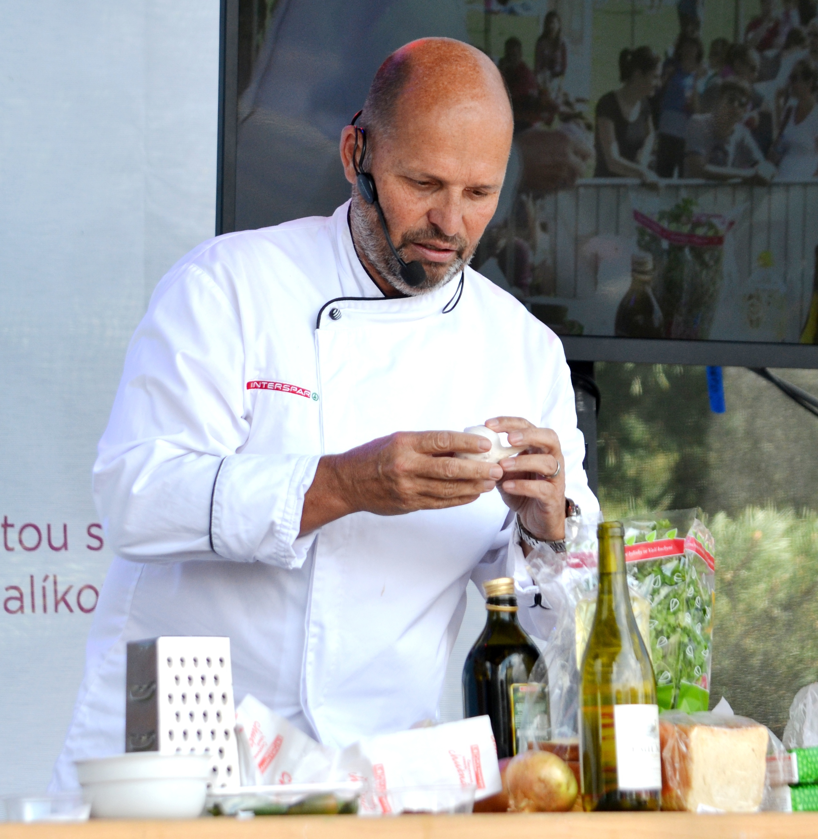 Zdeněk Pohlreich, Czech Chef